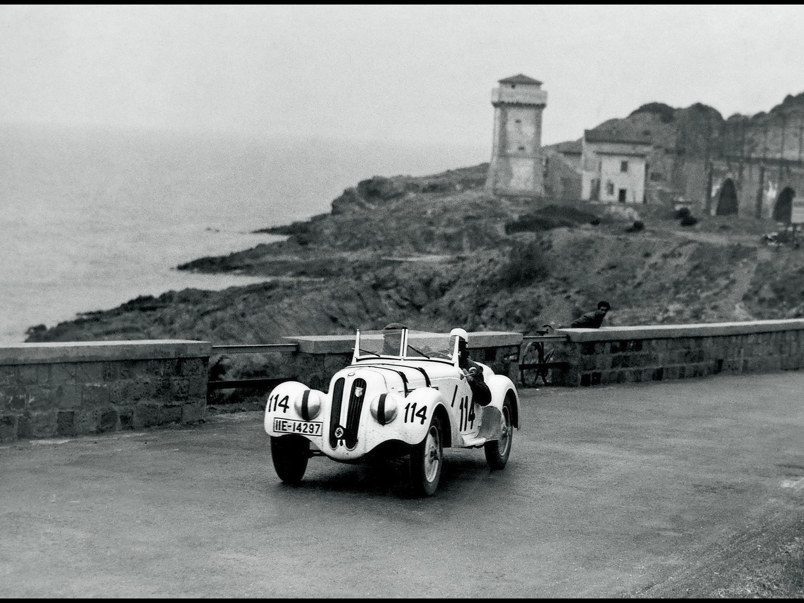 Heinrich Graf von der Mühle-Eckart (–2005[1]) and Theodor Holtzschuh (BMW employee in sports car dept) [2] in BMW 328 at Mille Miglia in Italia on 3 April 1938. They ended in 12th place.[3] The race This picture is on the coast, obviously, but the 1621 km race may have visited both the west and the east coast.